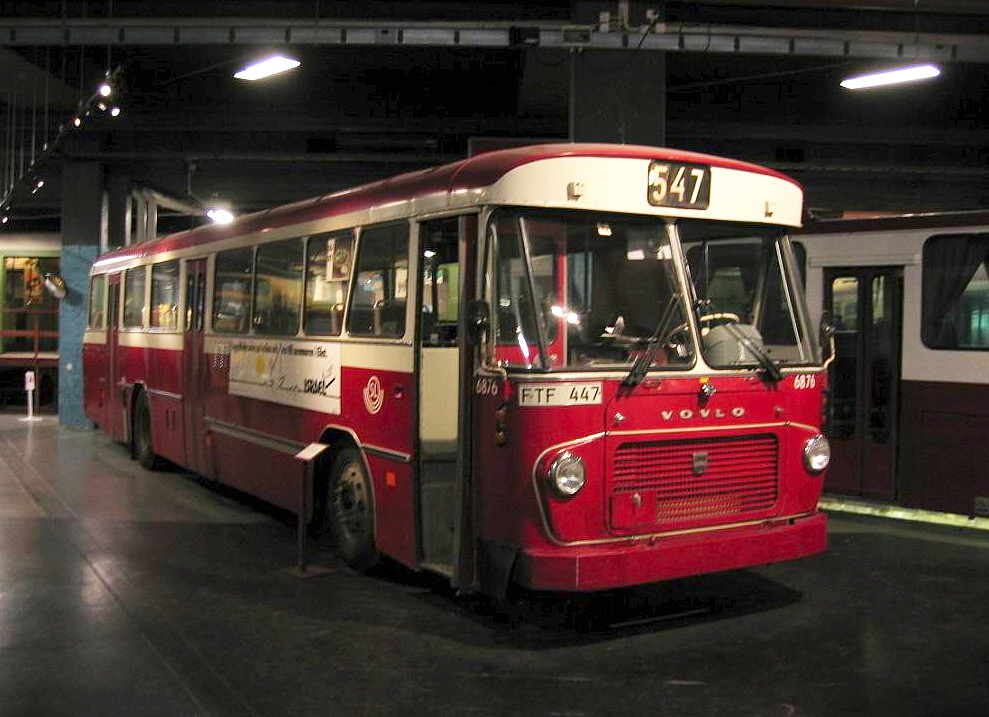 A Volvo B58 city bus from Stockholm, Sweden, built 1967 by Volvo and Hägglund & Söner.Storstockholms Lokaltrafik (SL), the main operator of public transportation in Stockholm, ordered 150 units of this type (littera H80) when sweden was about to go from left hand to right hand driving at September 3, 1967. Photo at Stockholm Tramway Museum.